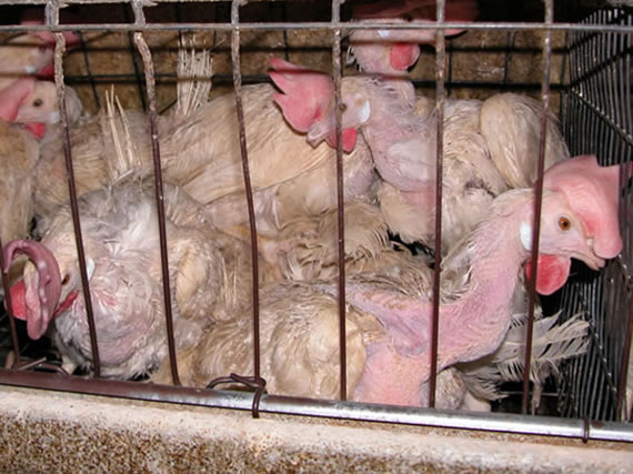 Egg laying hens (chickens) in a factory farm battery cage